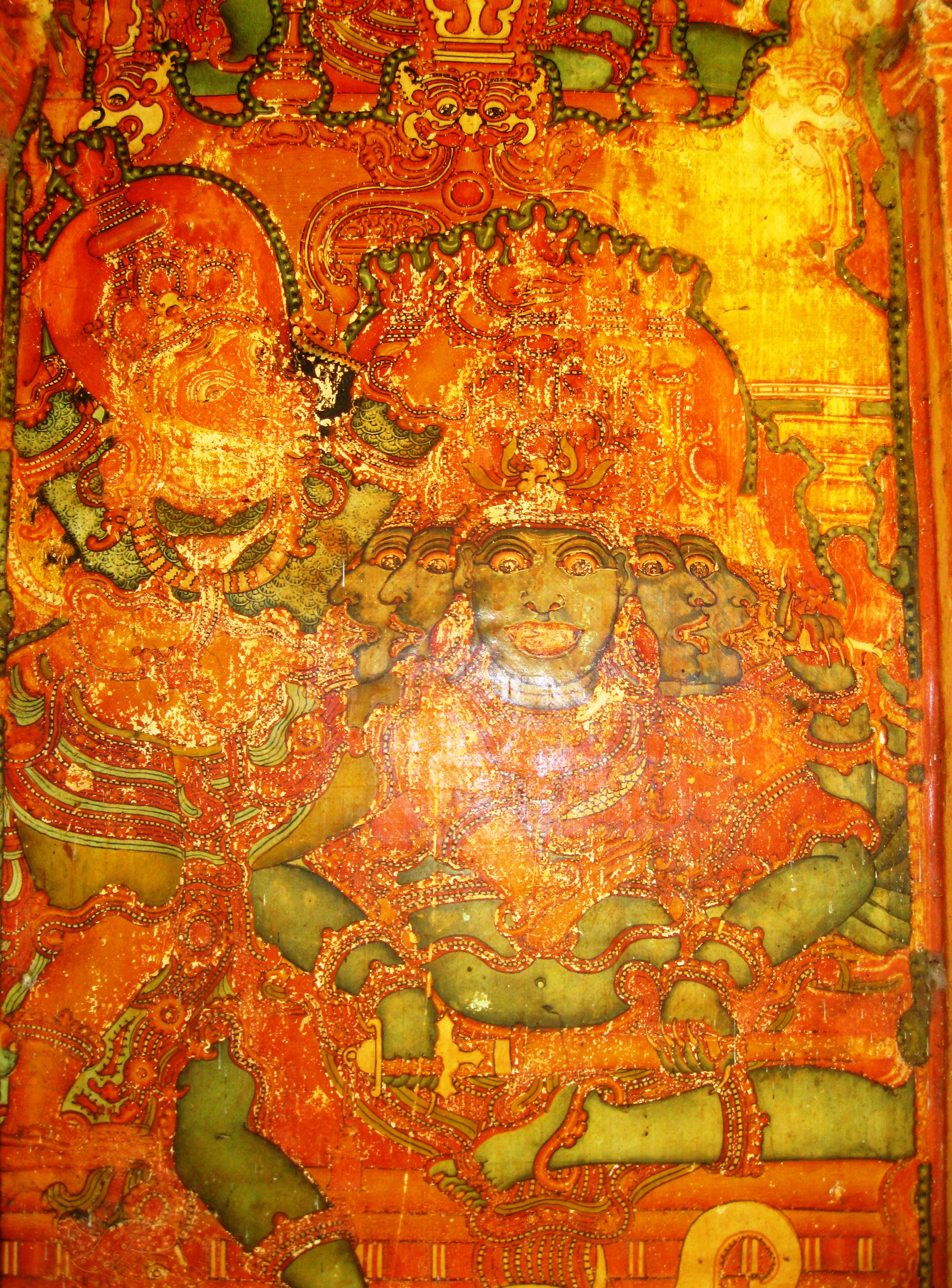 Thodeekalam mural paintings